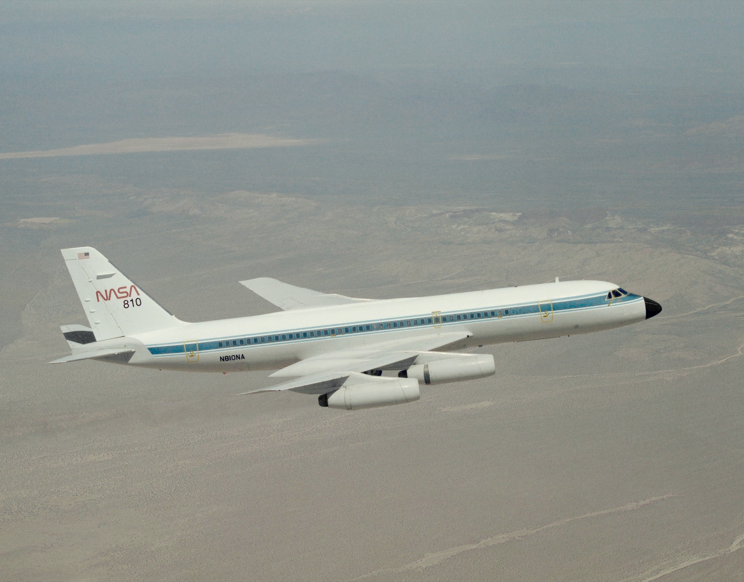 Convair CV 990 NASA 810 (N810NA), NASA Image Date: 1993